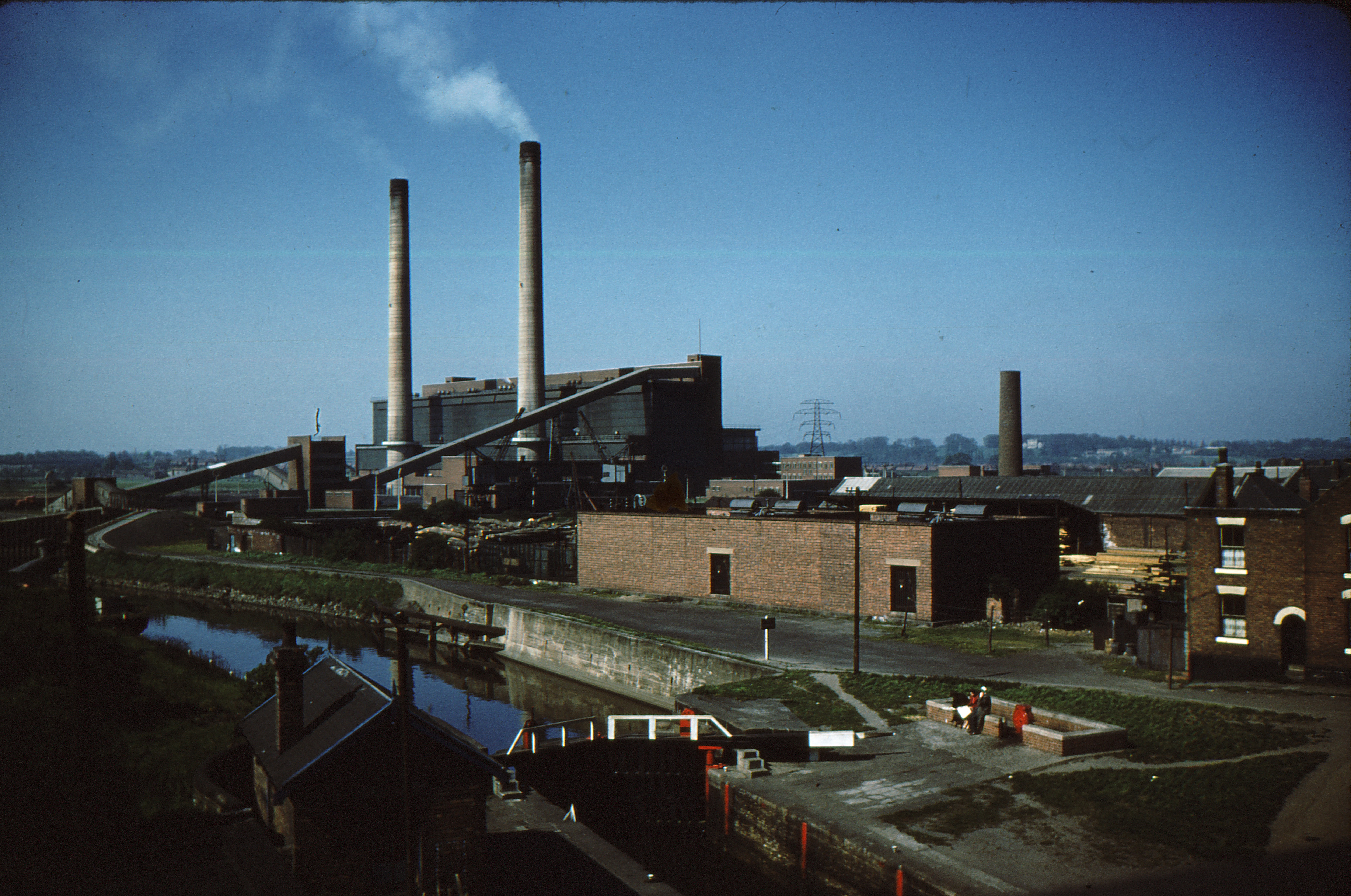 Doncaster Power Station taken from St. Mary's Bridge looking west. On the right just visible behind the right hand chimney is Cusworth Hall. Photo taken by the Late Leonard McKone.